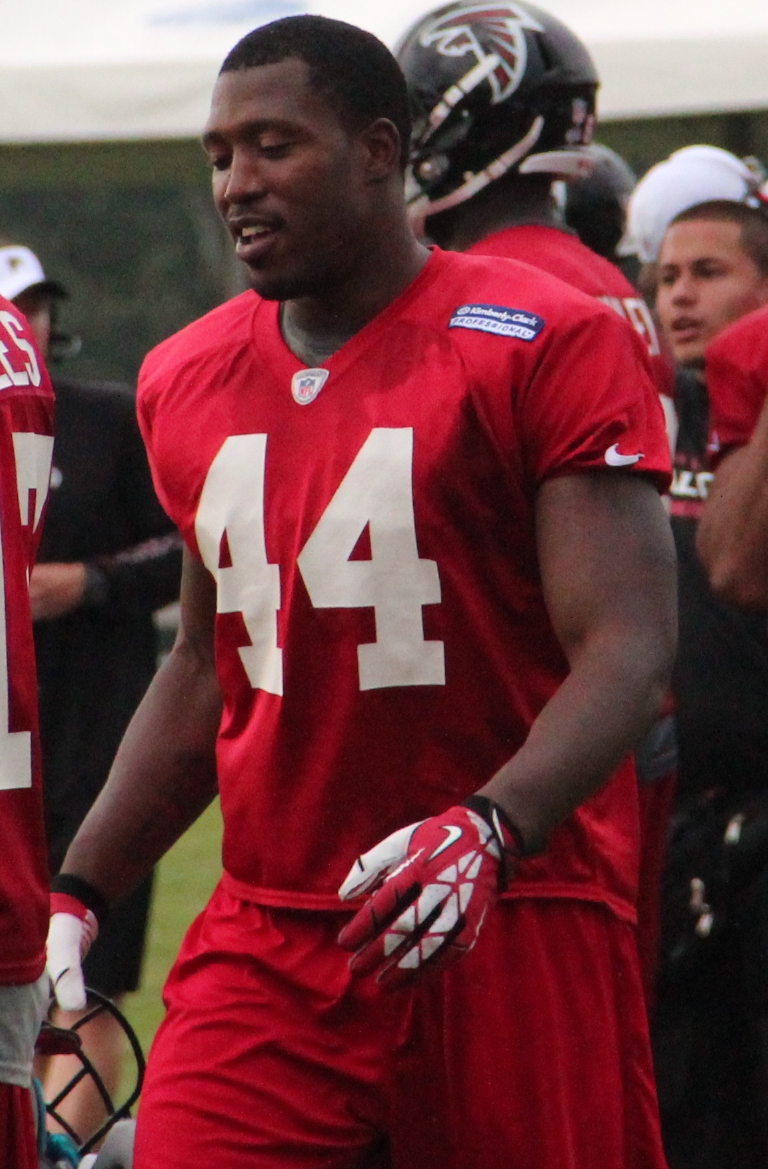 Jason Snelling at Falcons training camp, 2013